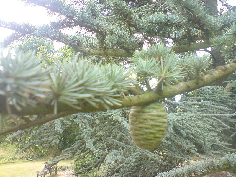 Atlas Cedar with foliage and a cone, and garden bench, in Kew Gardens, England. Cedrus libani var. atlantica 'Glauca'; syn: Cedrus atlantica’' 'Glauca'.